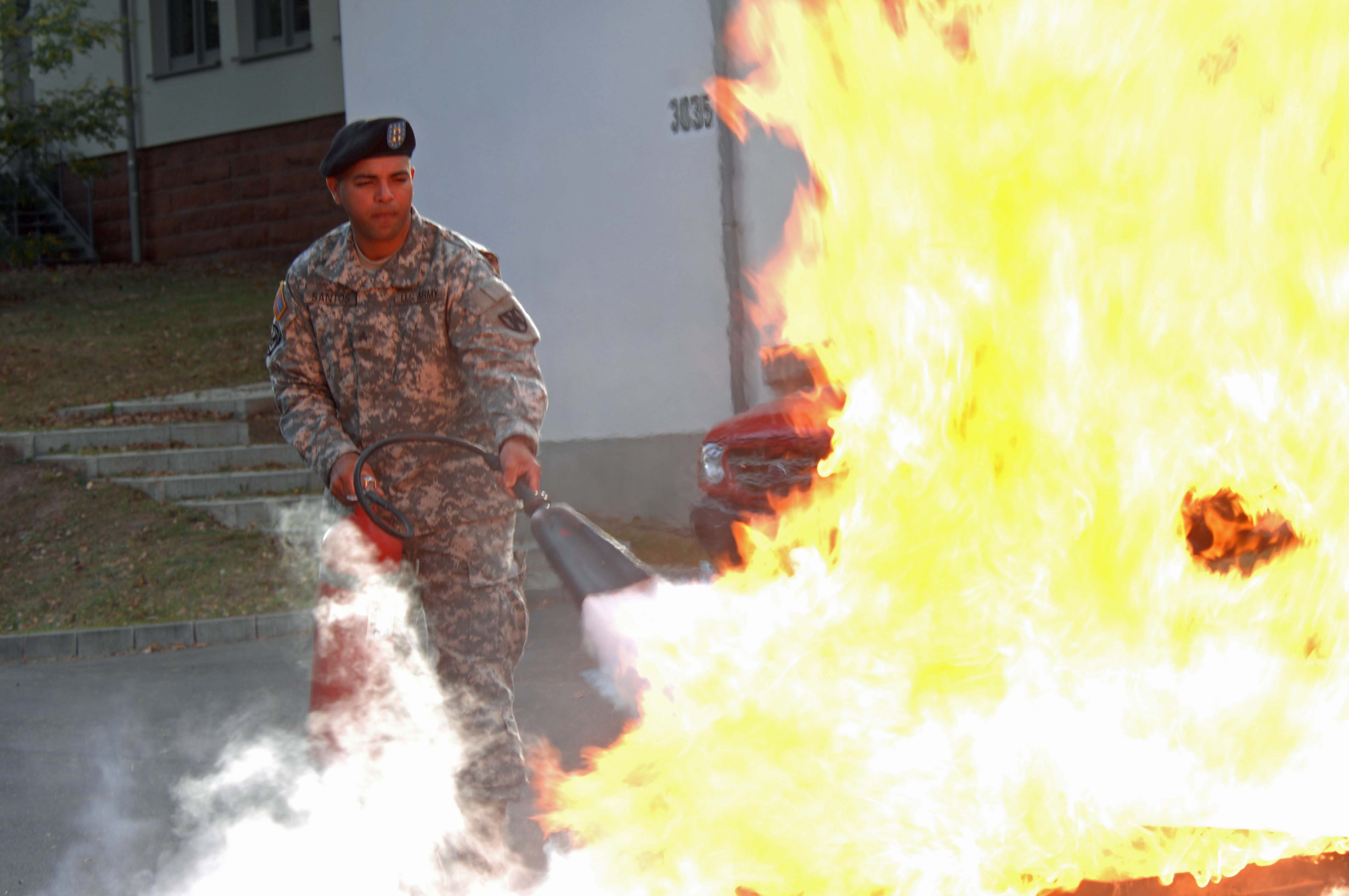 Sgt. Pedro Santos, from Headquarters and Headquarters Company, 21st Theater Sustainment Command, puts out a class "B" fire with a CO2 fire extinguisher Oct. 5 during a demonstration by the U.S. Army Garrison Kaiserslautern's Directorate of Emergency Services Fire Station on Panzer Kaserne in Kaiserslautern, Germany.